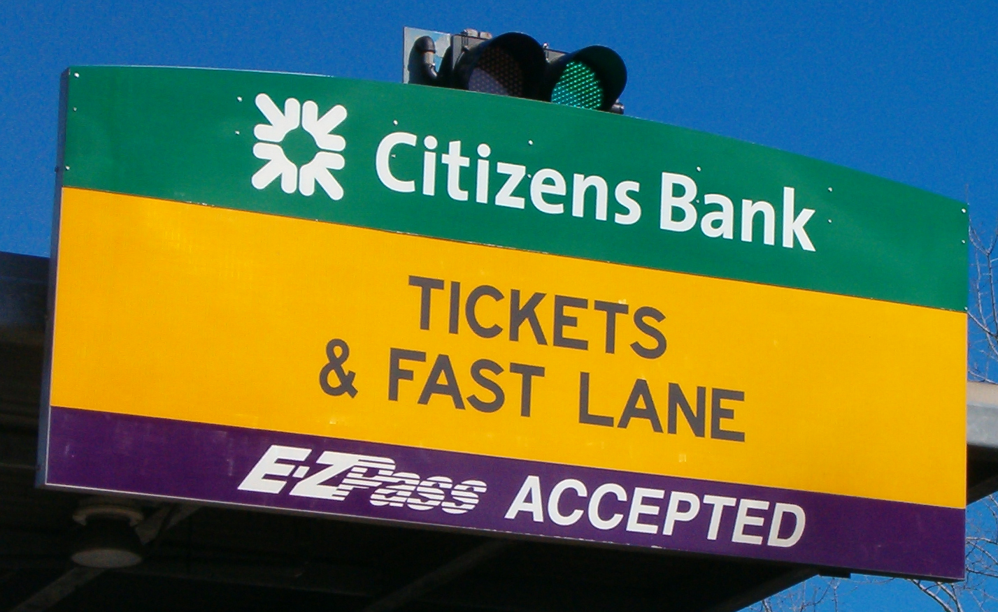 This is a Fast Lane sign, signifying that a Fast Pass for the Massachusetts Turnpike may be used here. This picture was taken 02/2006 at the toll booth at the junction of 1-84 and the Mass Pike.